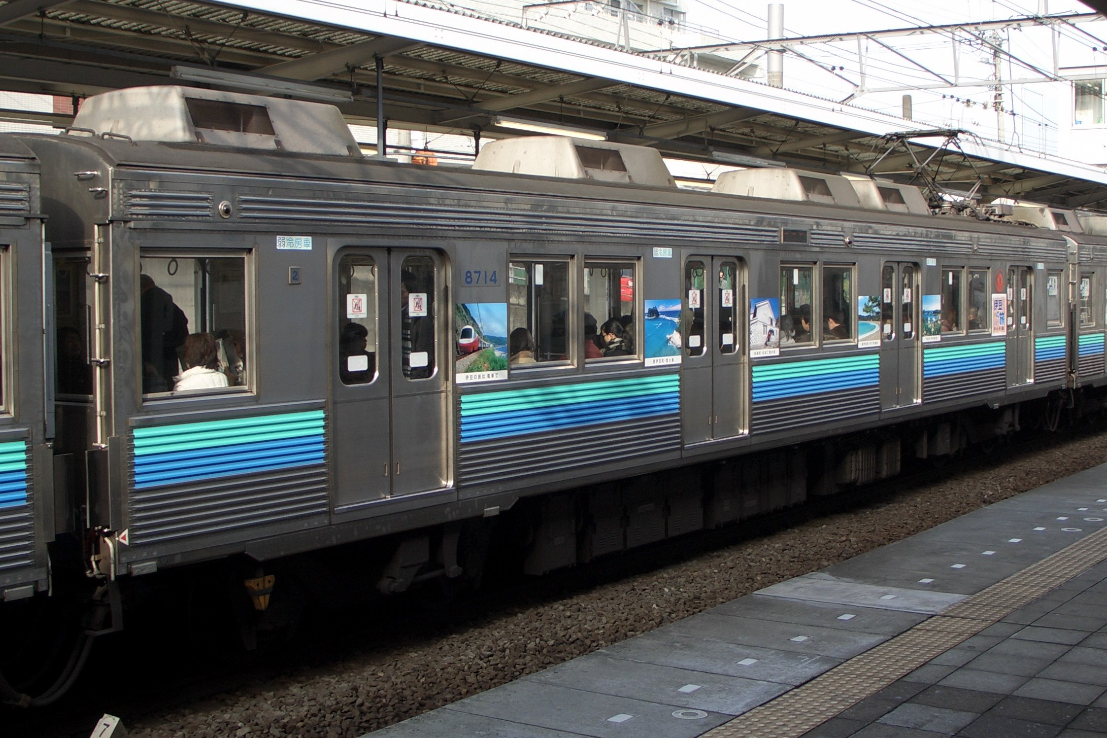 Description（説明）: Tokyu Electric Railway type 8500 Izunonatsu version（東急8500系 伊豆のなつ号） Source（出典）: Tokyu Den-en-toshi line Saginuma Station（東急田園都市線 鷺沼駅） Photographer/Painter（制作者）: yaguchi（矢口） Date（製作日）: 2006-12-16